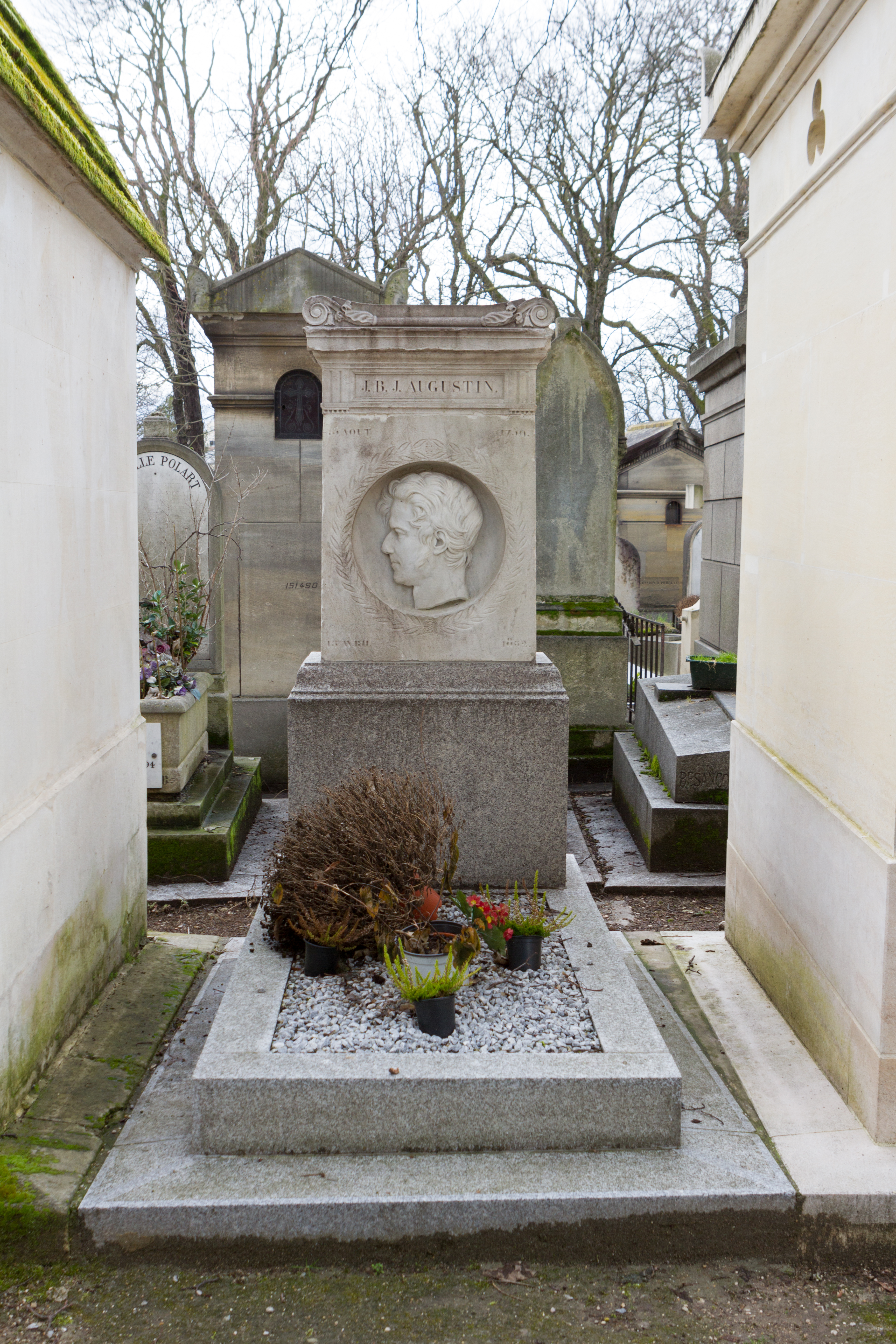 Père-Lachaise Cemetery